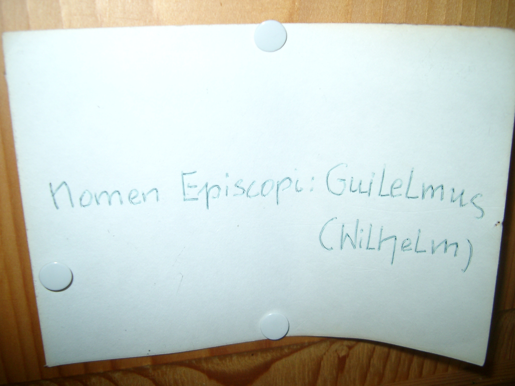 Handwritten Latin inscription in Wengen (Südtirol) in chapel at Ciampei